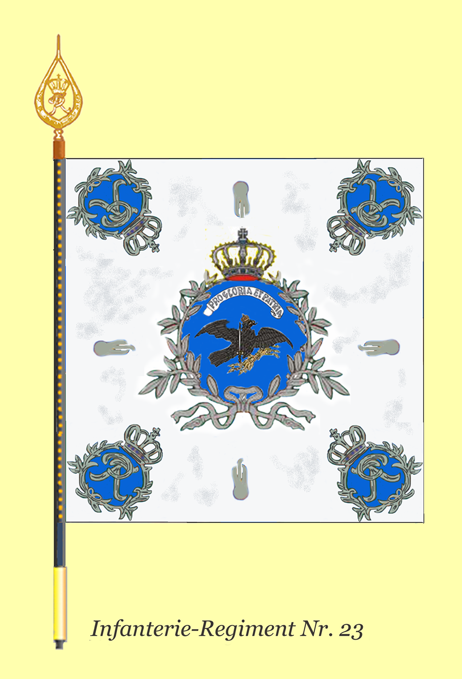 Colors of the royal prussian 23rd Regiment of infantry pre 1806